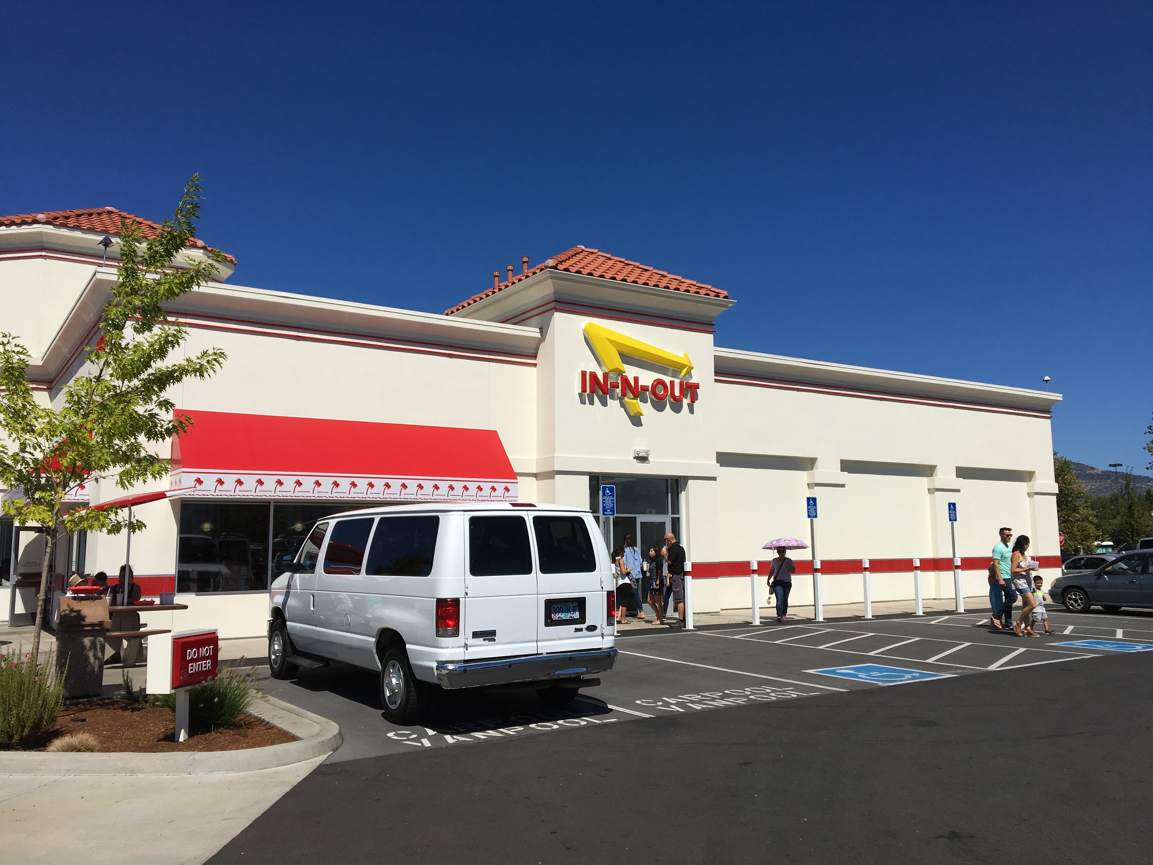 In-N-Out in Medford, Oregon. Opened September 2015 and was the first (and as of August 2016, only) location in the State of Oregon. Taken by myself.